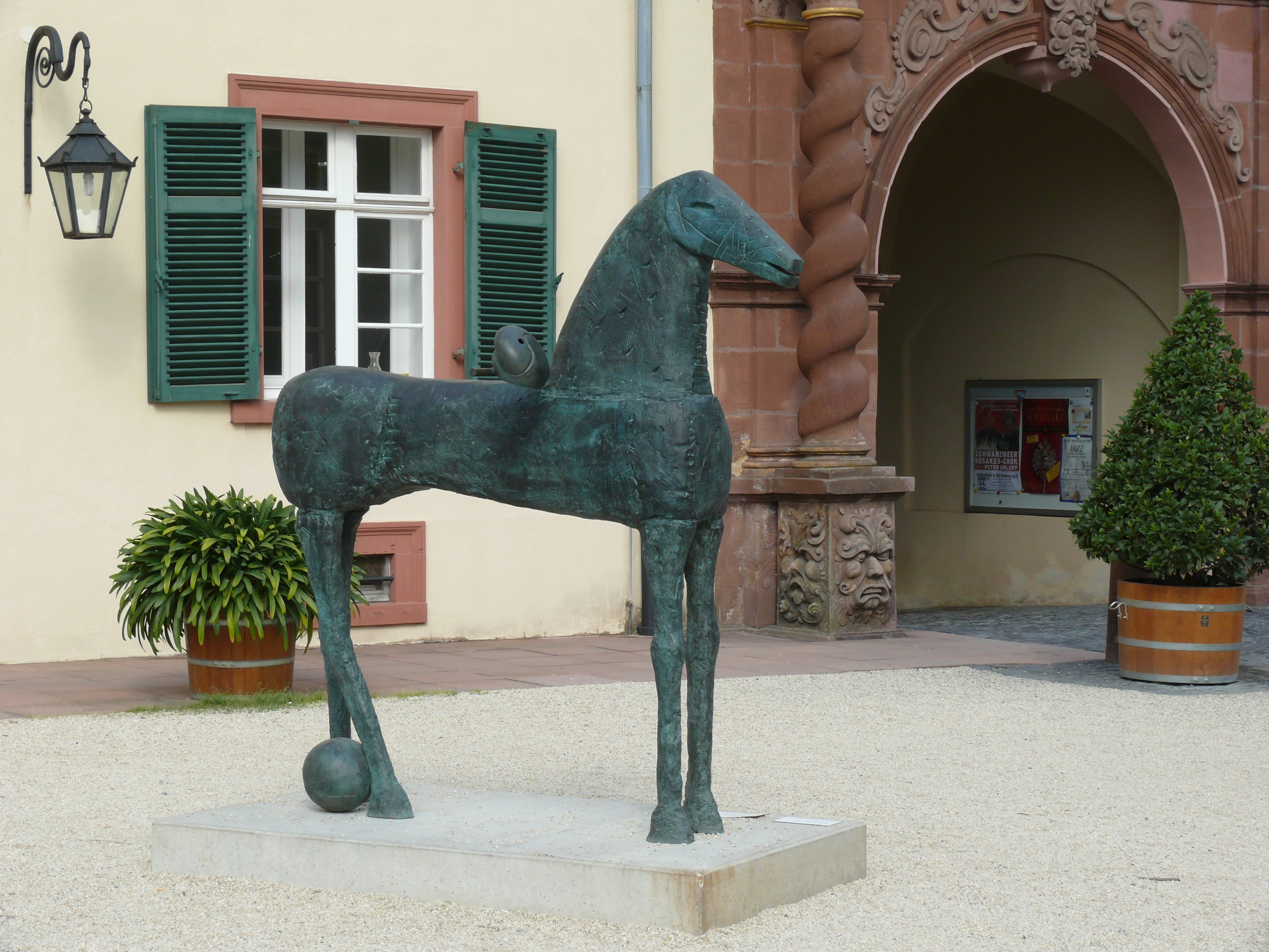 "Architettura" from Mimmo Paladino at "blickachsen 7", 2009, "Schlosshof" of Bad Homburg, Hesse, Germany